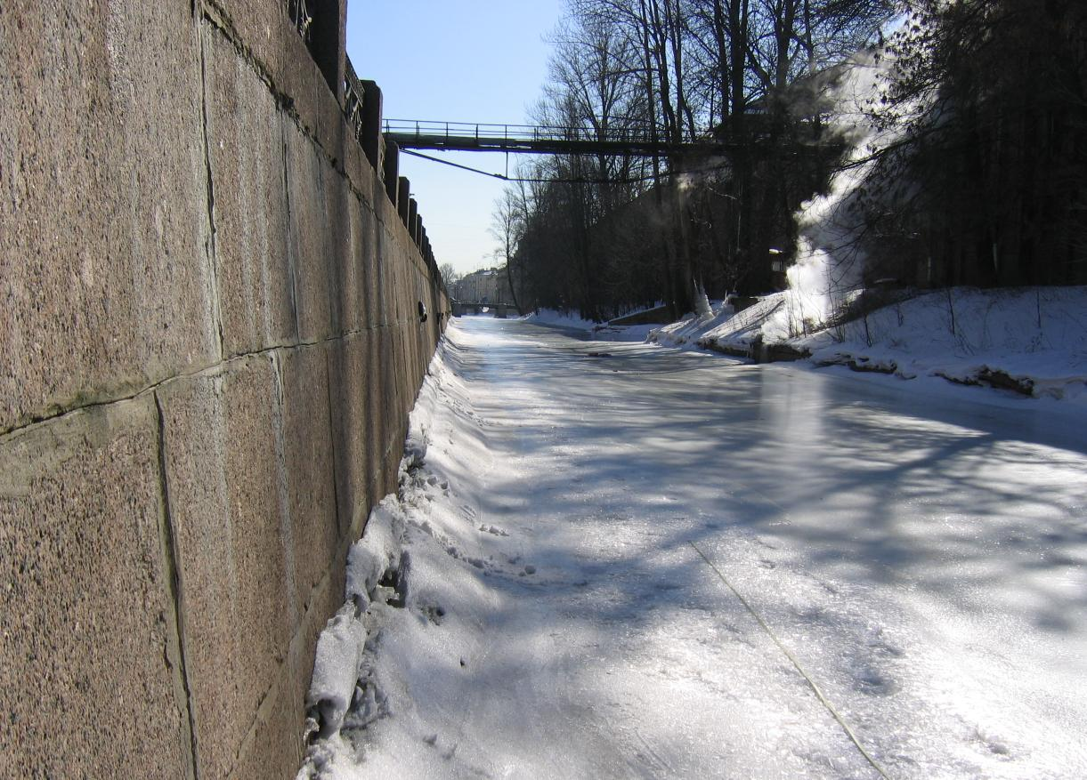 Krykov canal in Saint Petersburg, Russia